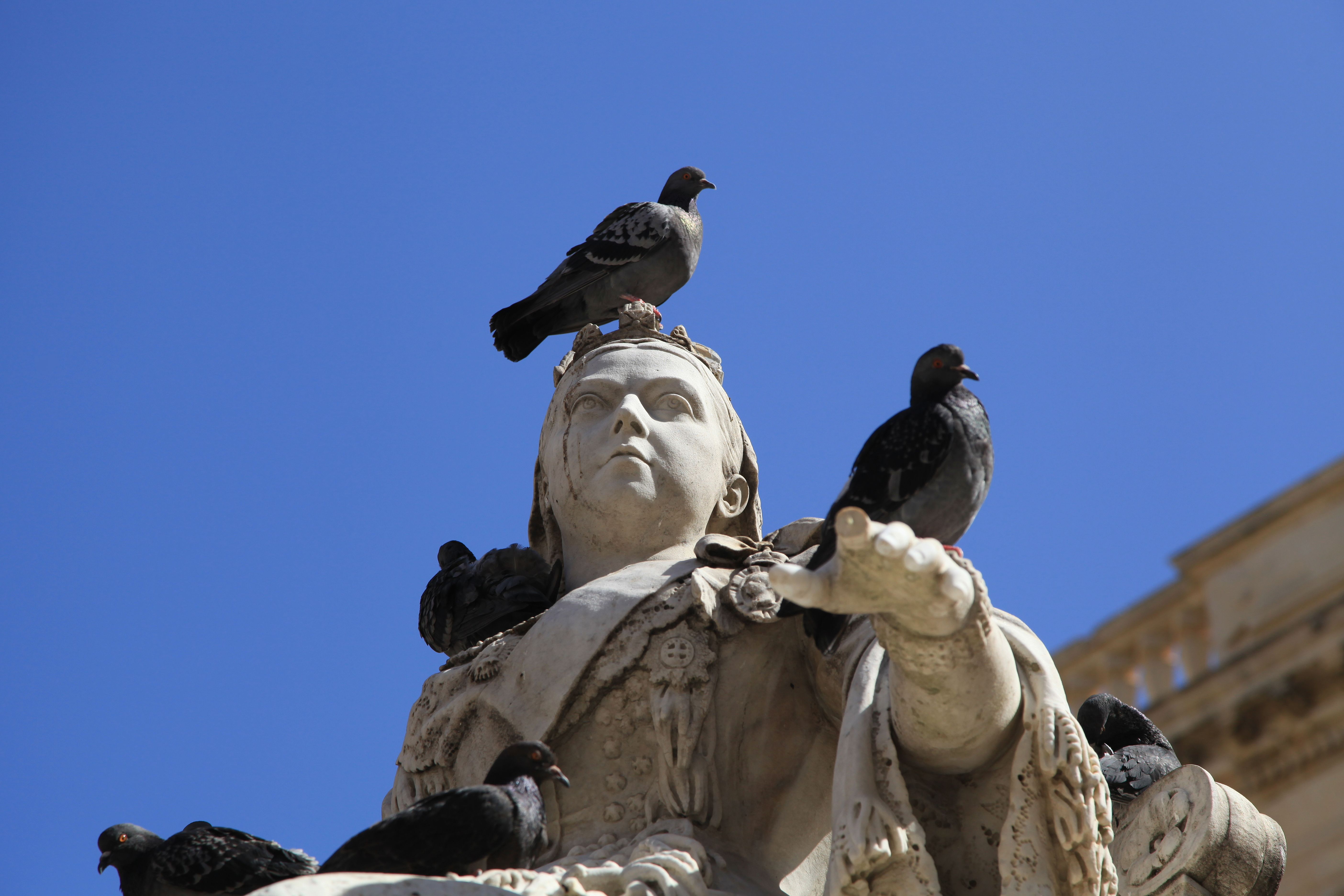 Queen Victoria Statue at Misraħ Ir-Repubblika, Triq ir-Repubblika in Valletta, Malta